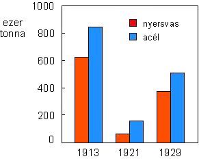 Production data of pig iron and steel, between 1913 and 1929 in Hungary